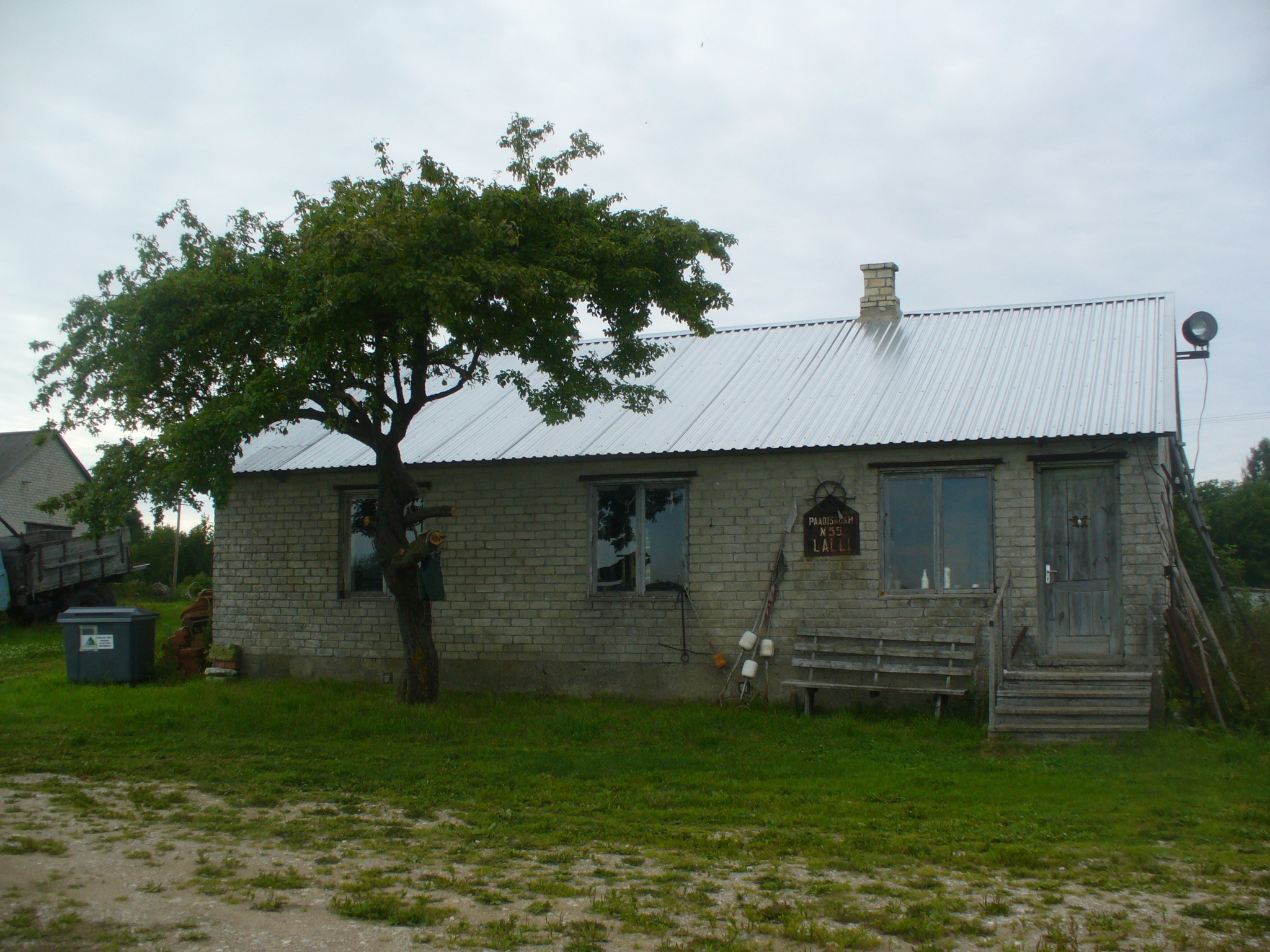 Lalli harbor building. Lalli village, Muhu commune, Saare county, Estonia.